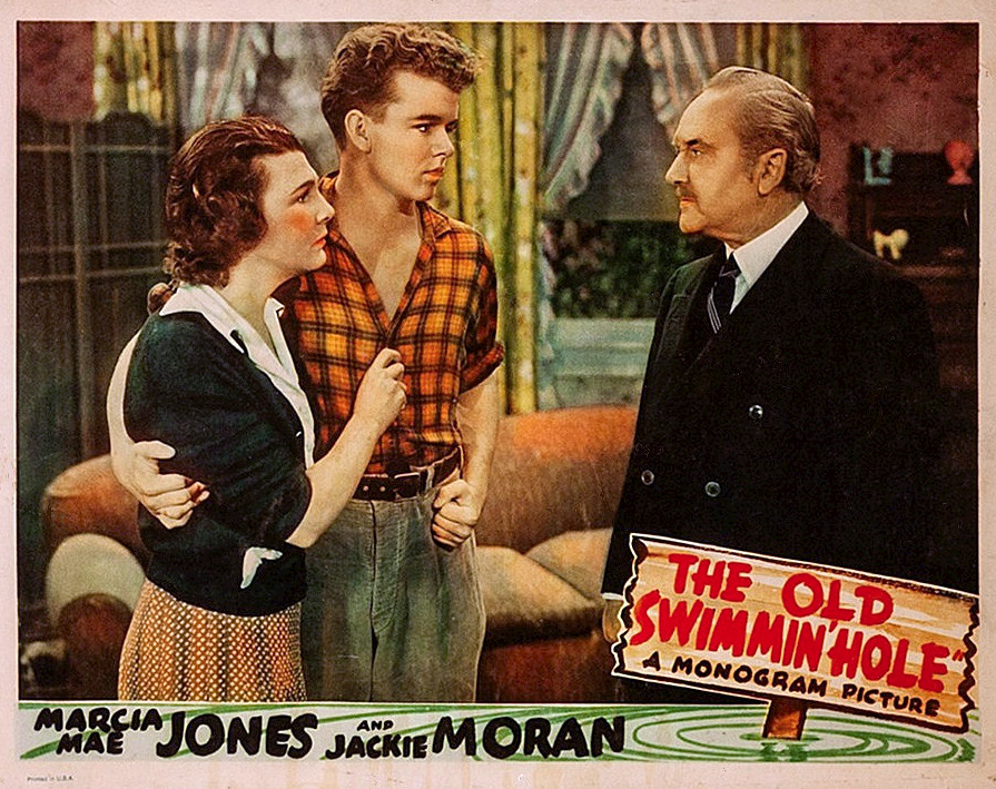 Lobby card for the 1940 film The Old Swimmin' Hole.